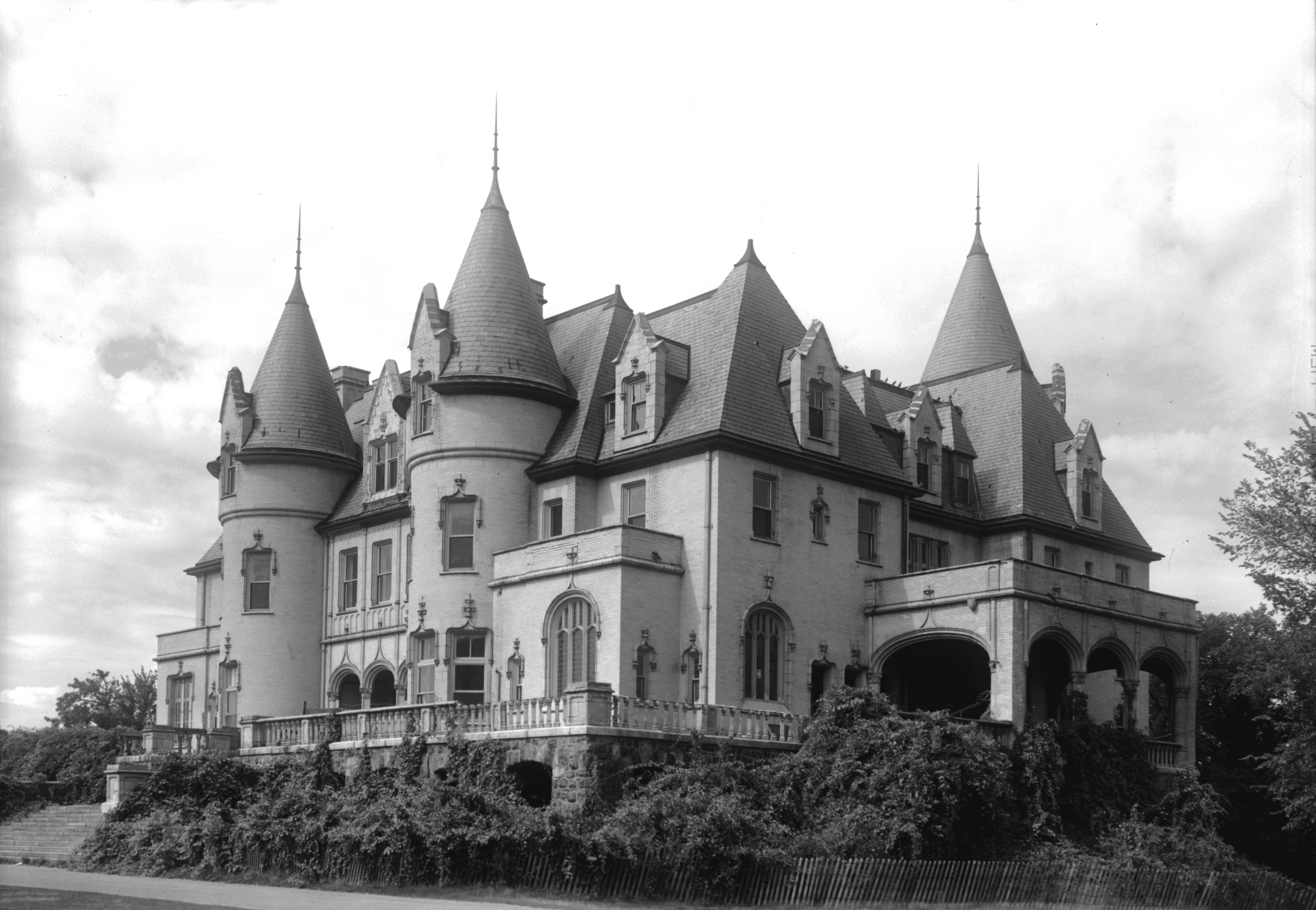 Northfield Chateau, Birnam Road, Northfield, Massachusetts, USA. Photograph of exterior. (This building no longer exists.)